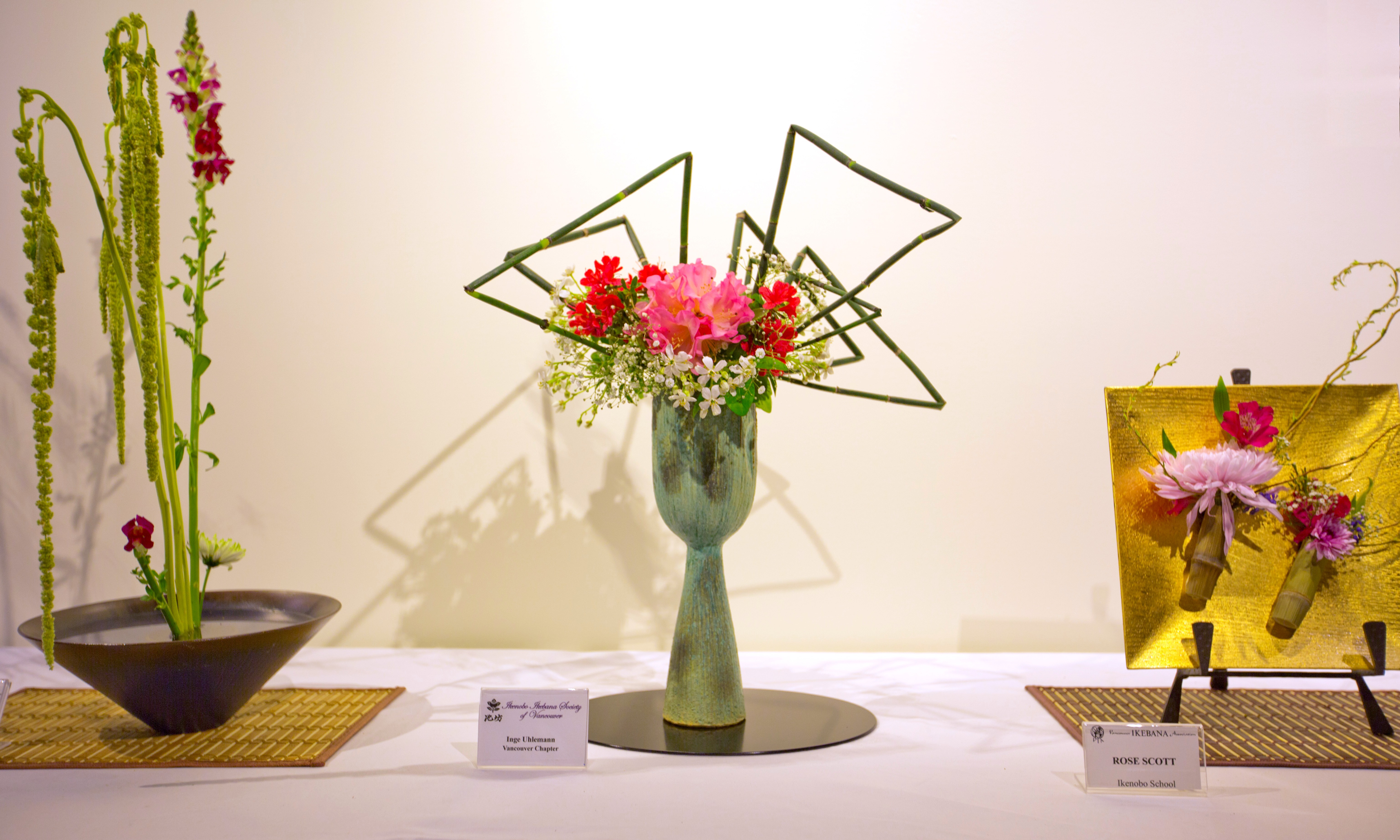 Sakura Days Japan Fair